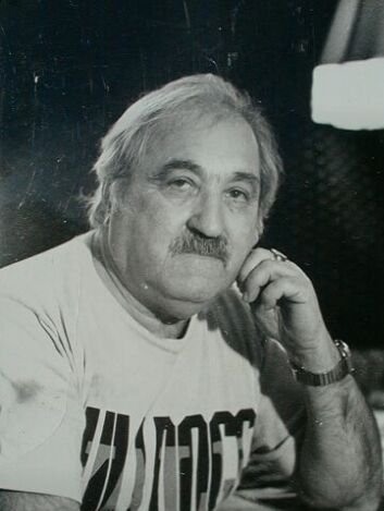 a photo from the archive of the Third Wave Books